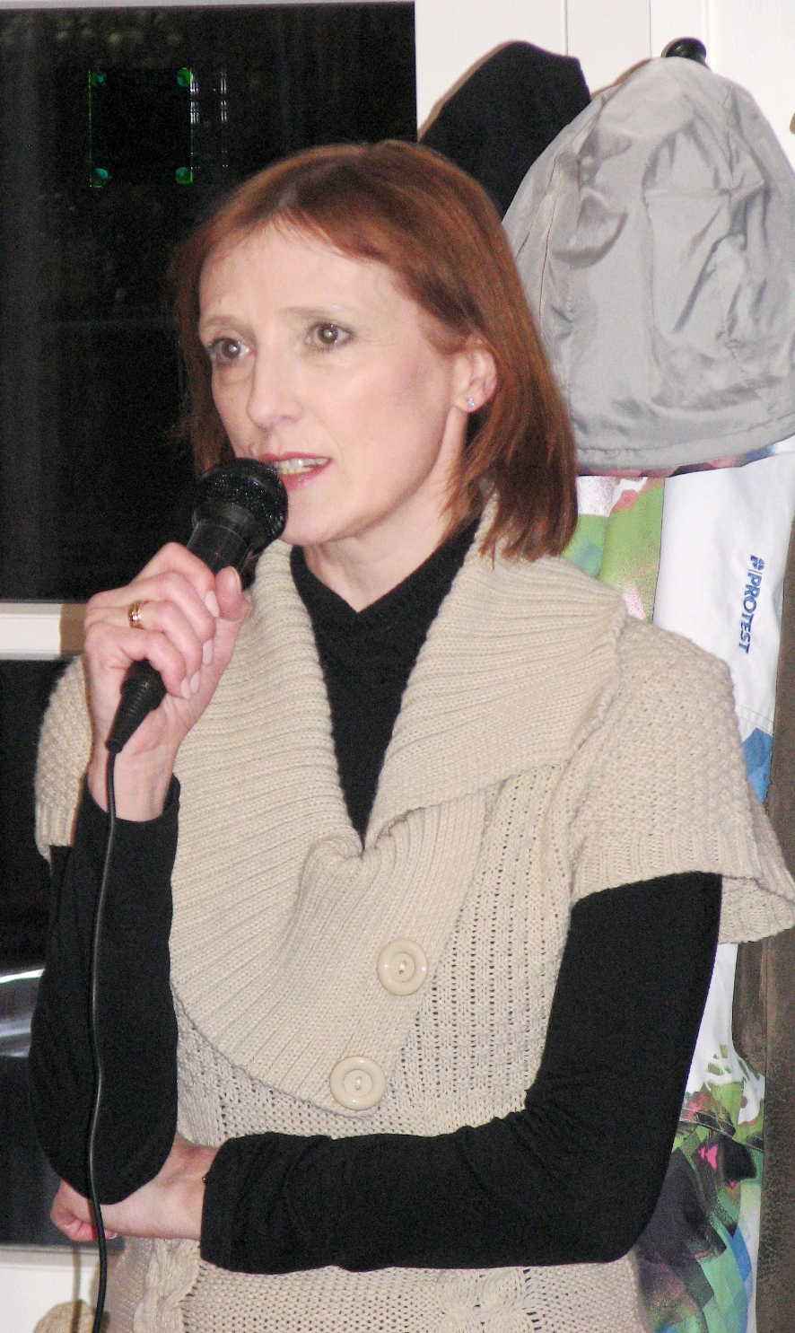 Kaie Kõrb is Estonian ballerina and dance pedagogue.